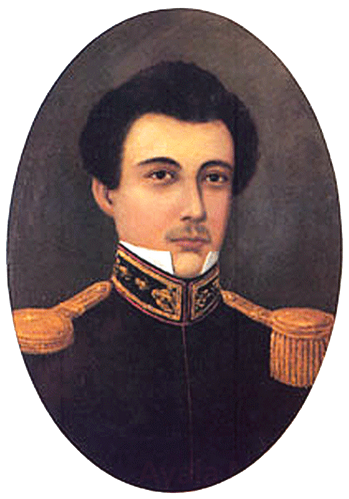 Copy of the self-portrait of Damián Domingo (1796-1834), Oil on canvas (Undated)